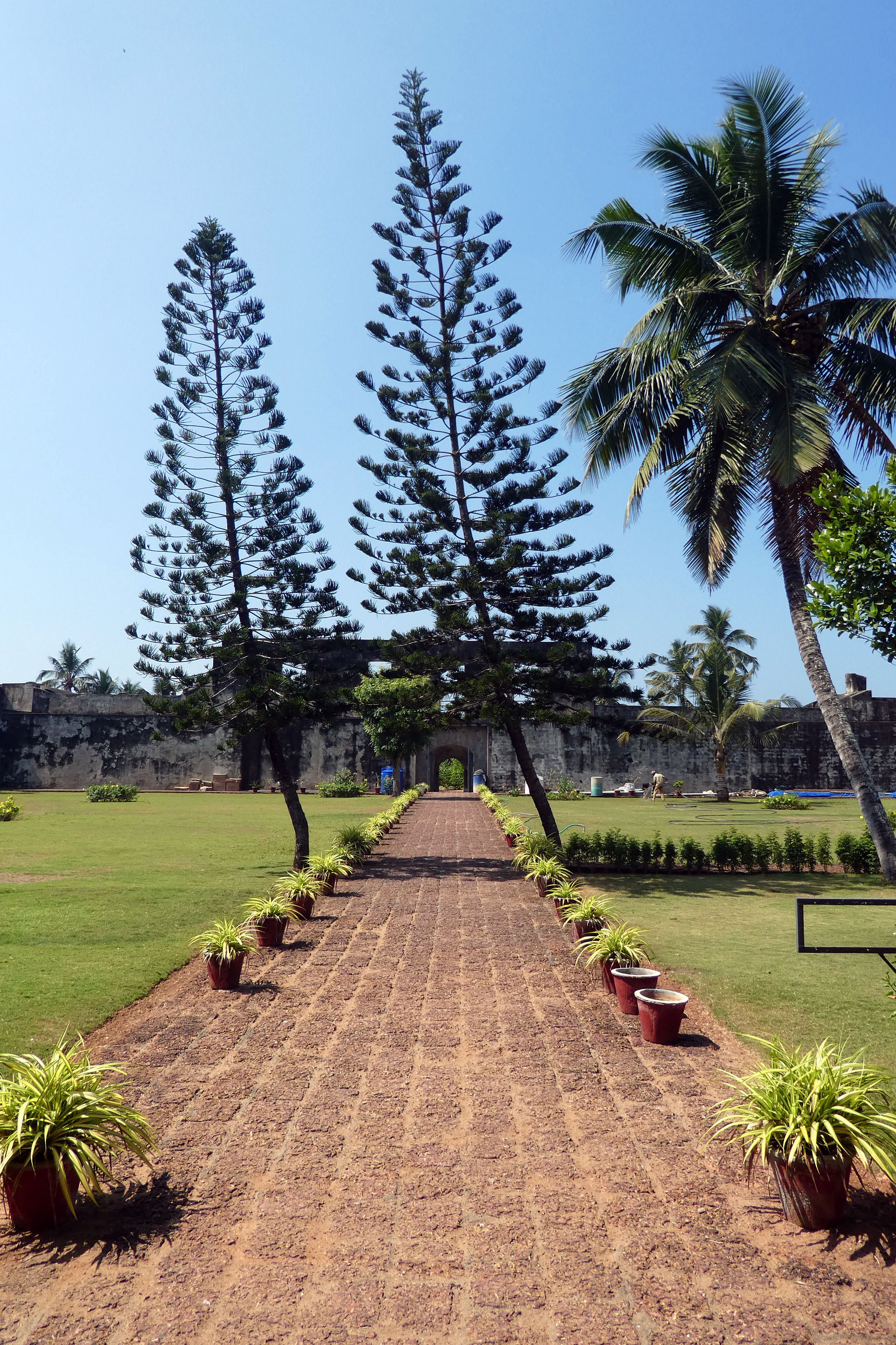 Anchuthengu Fort Main Path (as seen from entrance)